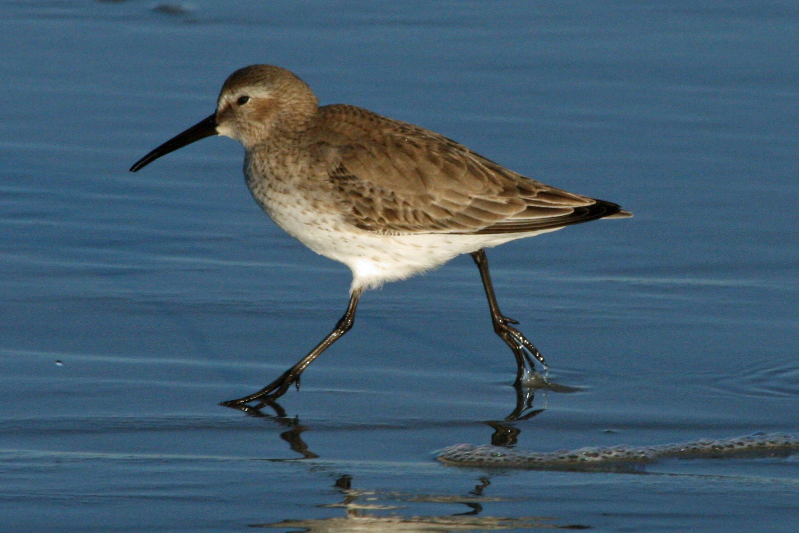 Dunlin (Calidris alpina) at Sunset Beach, North Carolina